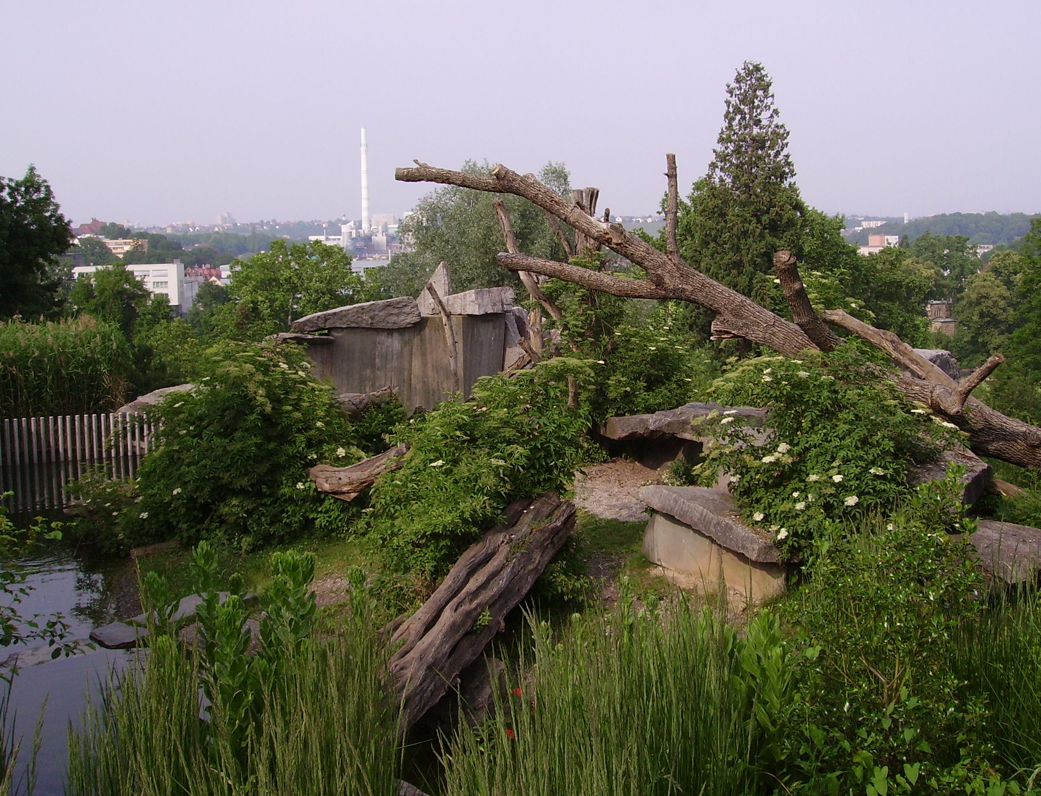 zoological garden and botanical garden Wilhelma in Stuttgart, Germany